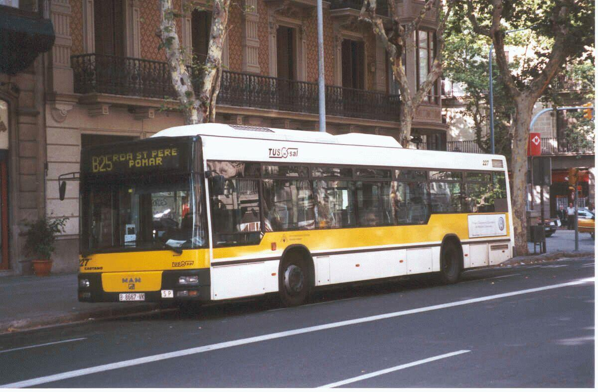 Tusgsal bus in BCN.